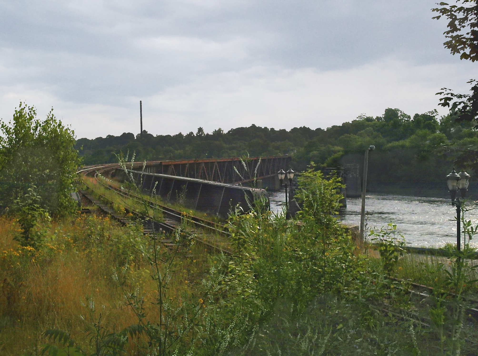 inactive railroad with bridge over the Kennebec River, near Augusta, Maine, US